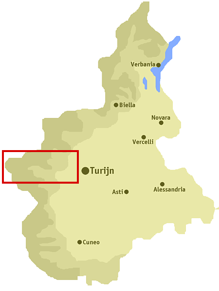 Position of the valley Valle Susa